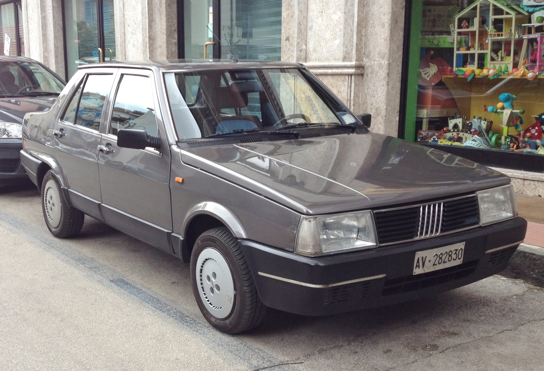 Fiat Regata berlina